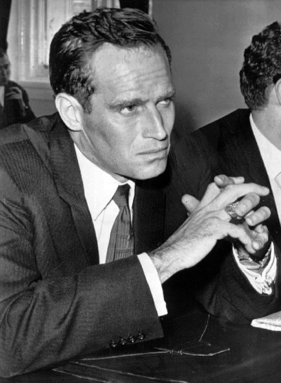 News photo of Charlton Heston at a House Labor Subcommittee hearing in Washington dealing with the impact of overseas production of American movies.